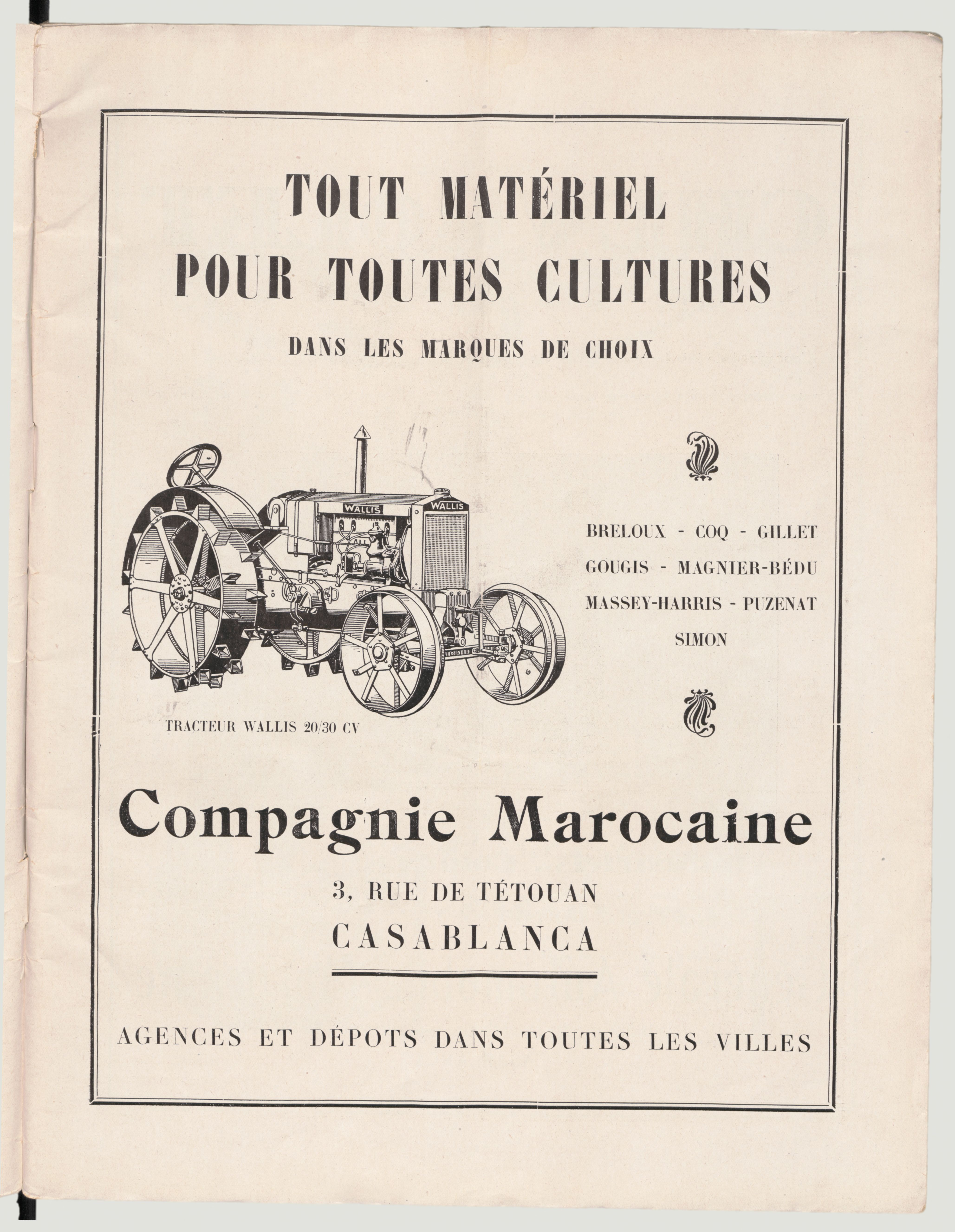 Full-page advertisement for La Compagnie Marocaine in La Terre Marocaine from December 1, 1928